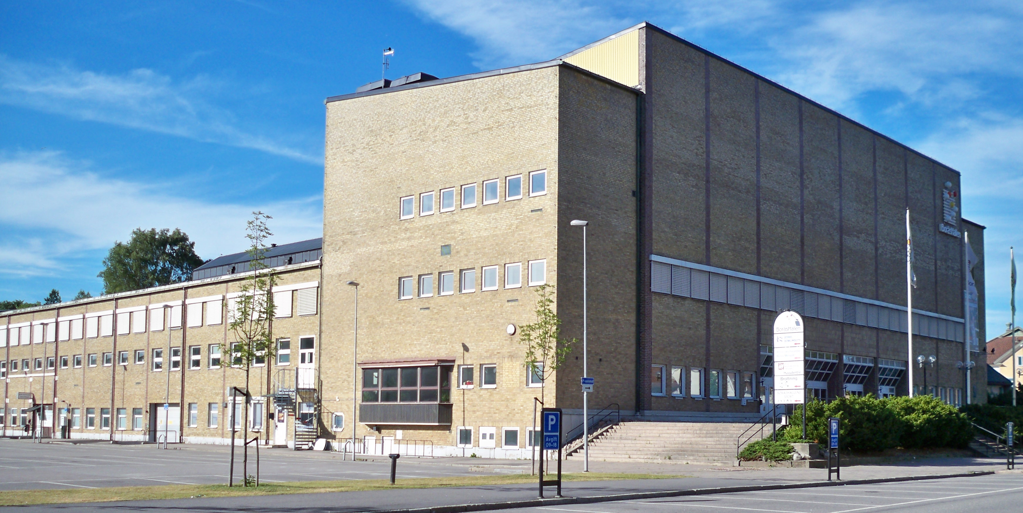 The central sports hall of Borås.